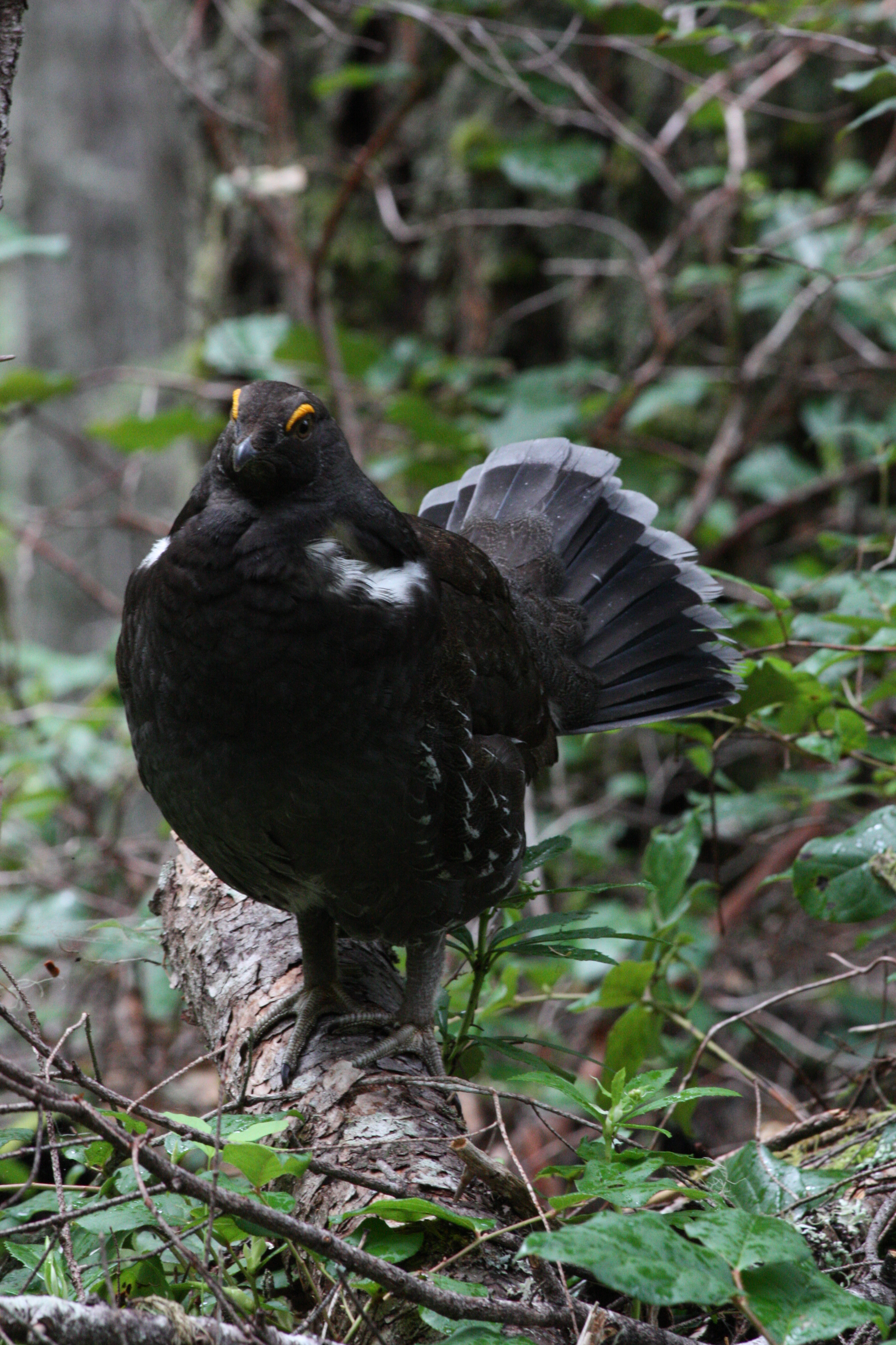 Sooty Grouse male